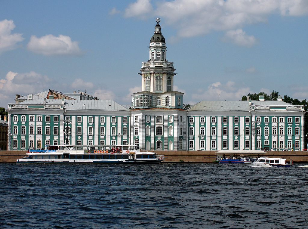 Kunstkamera in Saint Petersburg, view across the Neva